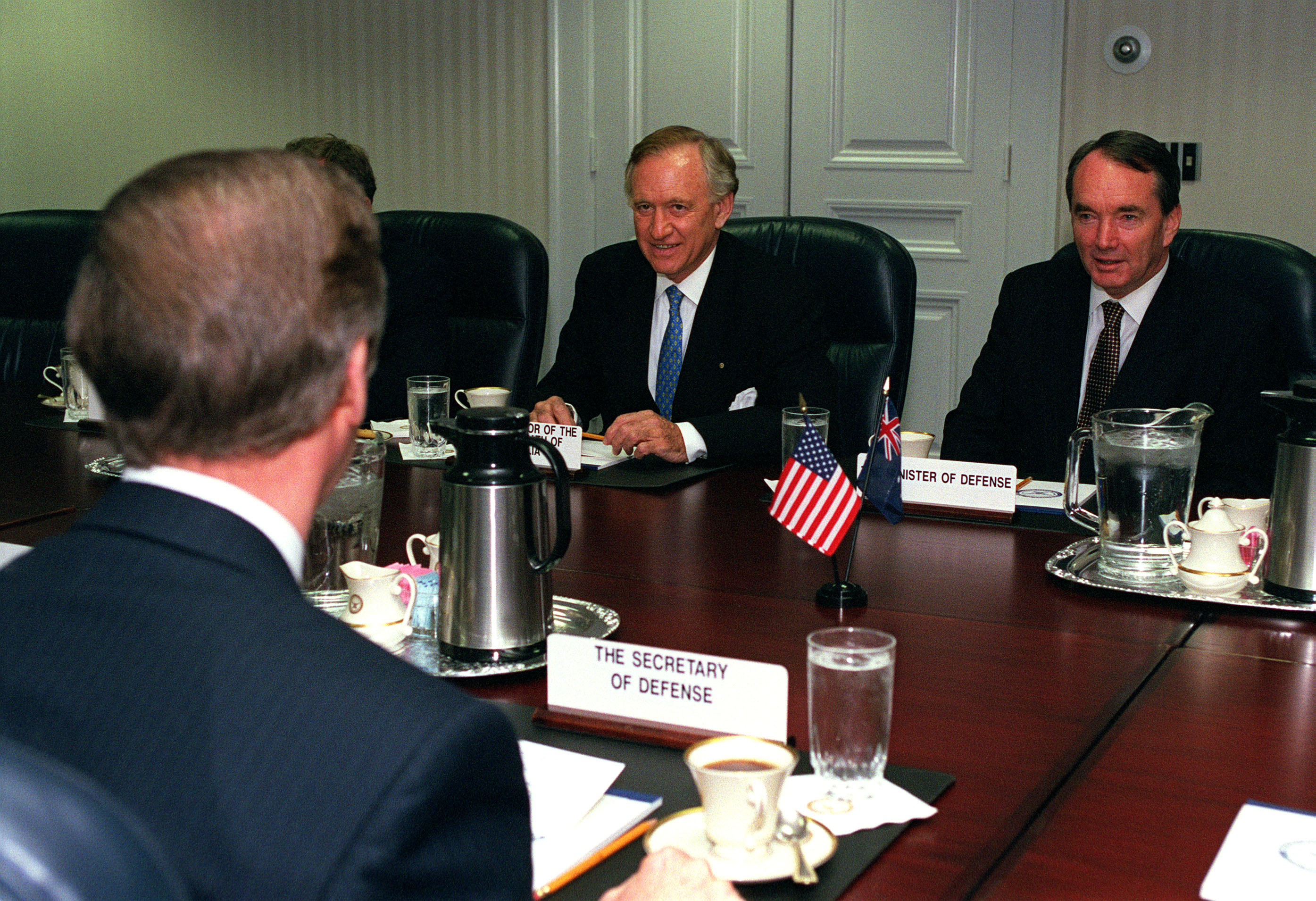 Australian Minister of Defense John Moore (right) and Australian Ambassador to the United States Andrew Peacock (center) meet with Secretary of Defense William S. Cohen (left) at the Pentagon. Cohen and his senior advisors are meeting with Moore and his delegation to discuss international and regional security issues of mutual interest to both nations.